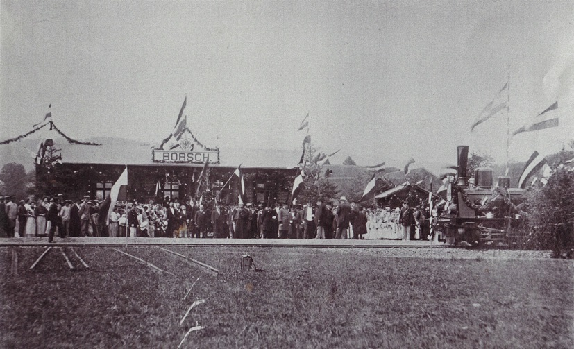 Opening of the terminal Boersch and the branch line Rosheim – Ottrott – Saint Nabor (built by the railway constructing and operating company Vering & Waechter in 1902)